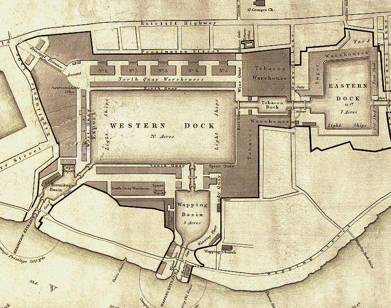 Plan of the London docks as completed in 1831 [cartographic material] (extract showing only the docks). This image is available from Oxford Bodleian Library under the digital ID 020167168 This tag does not indicate the copyright status of the attached work. A normal copyright tag is still required. See Commons:Licensing.